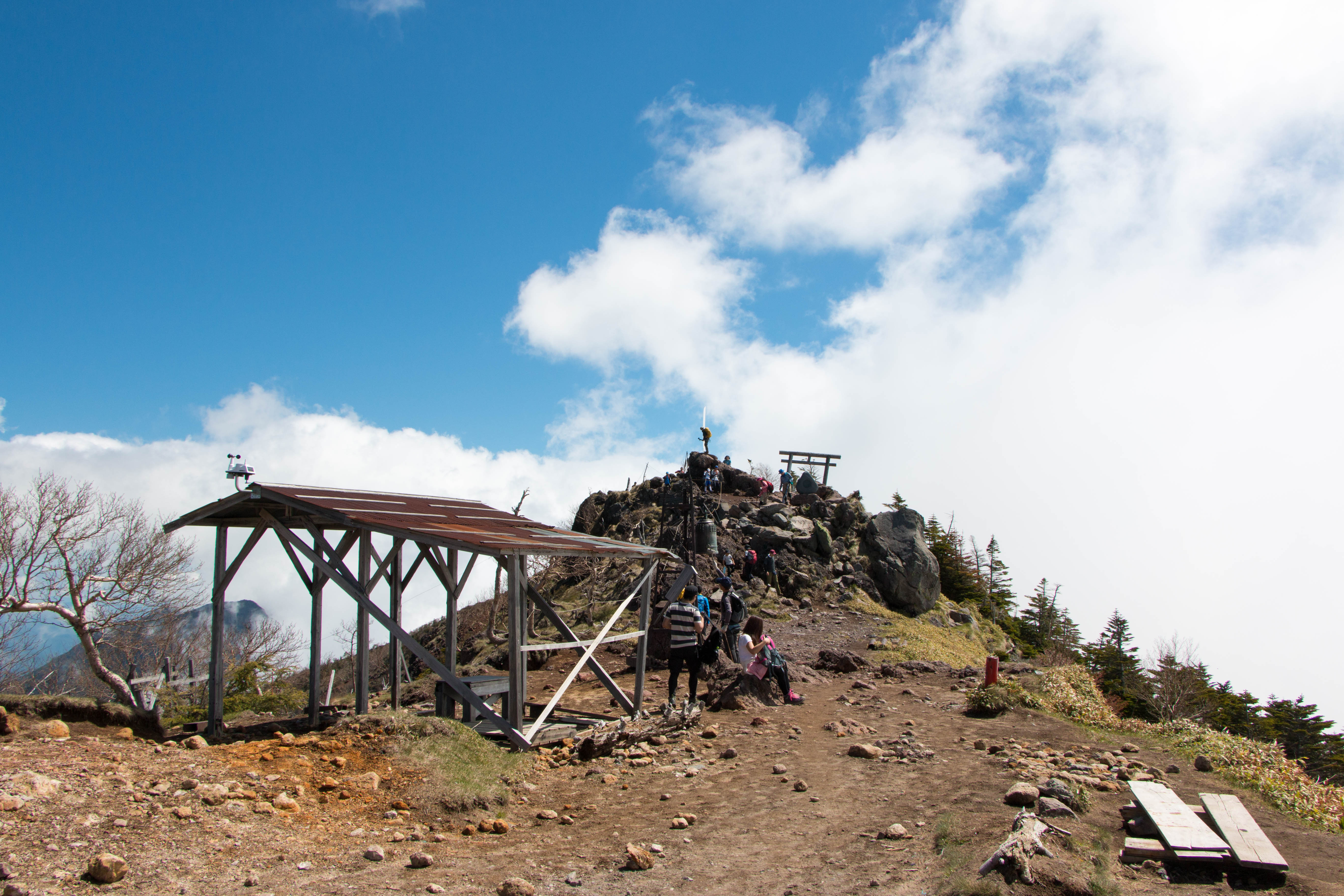 Japan: summit of mount Nantai (Nikkō city, Tochigi prefecture).